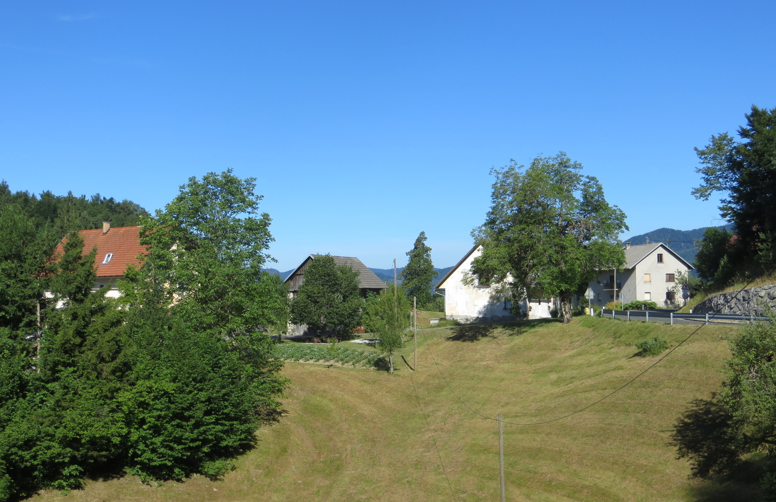 Ledinsko Razpotje, Municipality of Idrija, Slovenia